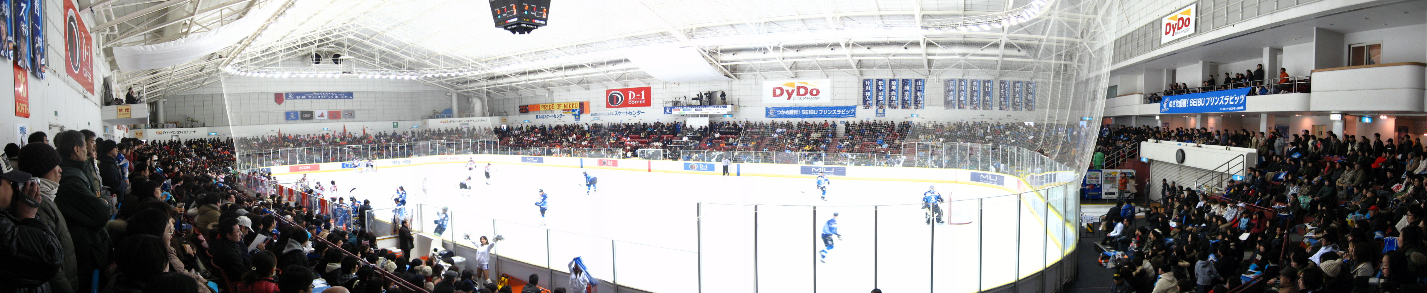 DyDo Drink Higashifushimi Ice-arena Rinks.